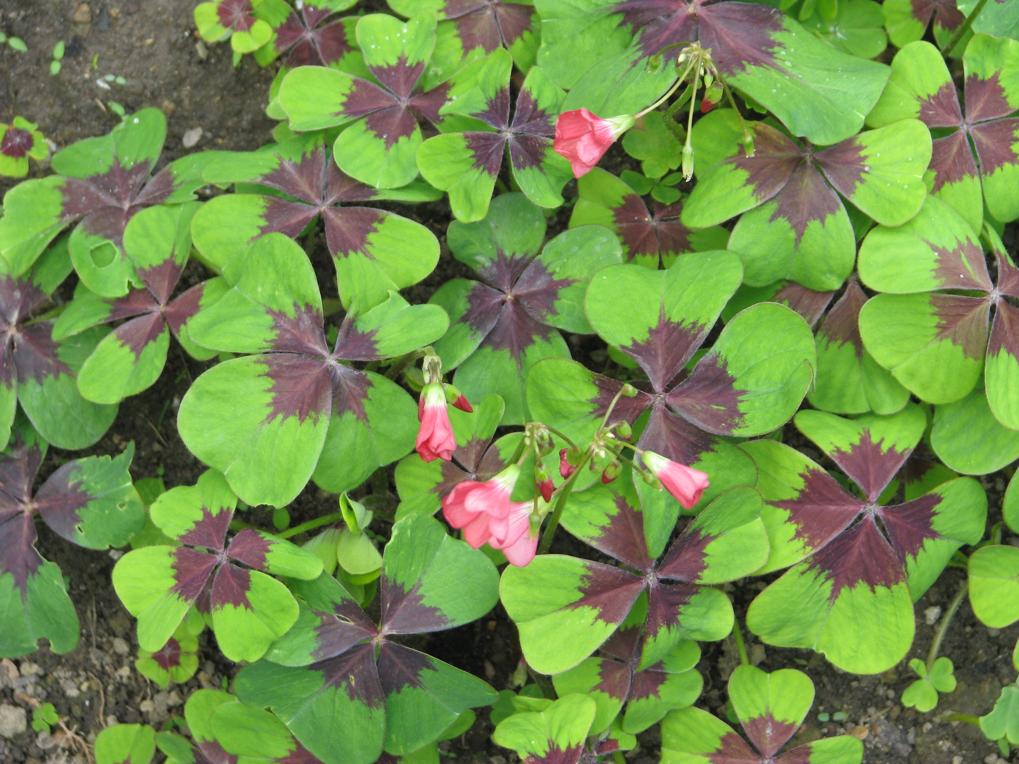 The other, more dramatic form of this species - known as the Iron Cross Oxalis and also a hardy perennial at Pool Meadow having come through the last few winters without difficulty in an open border.